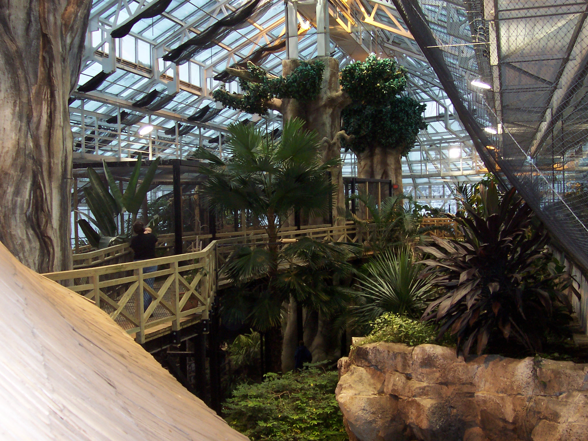 Photo of a part of the Indo-australian greenhouse at the Quebec zoological garden. Photo par/taken by Sébastien Savard